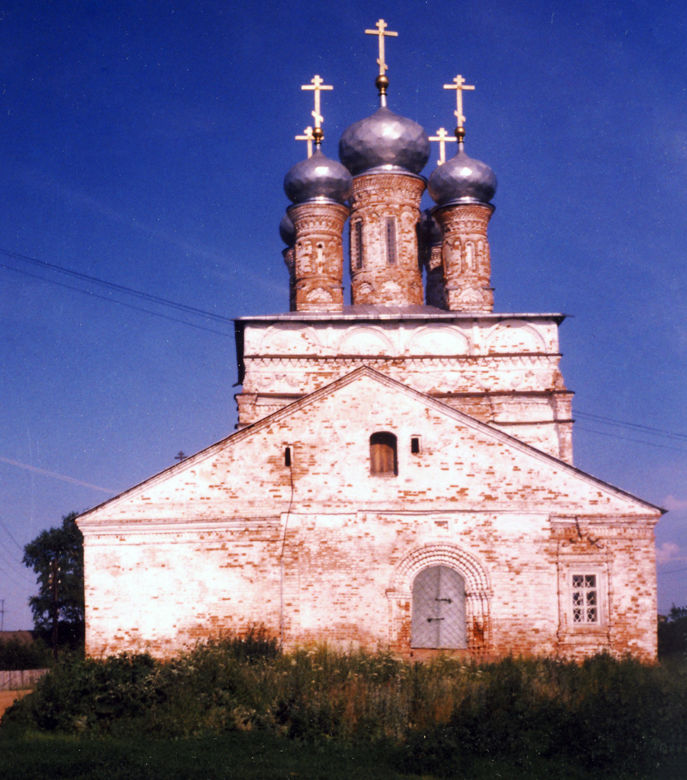 Lyskovo, Church of the Transfiguration of Christ (1711).